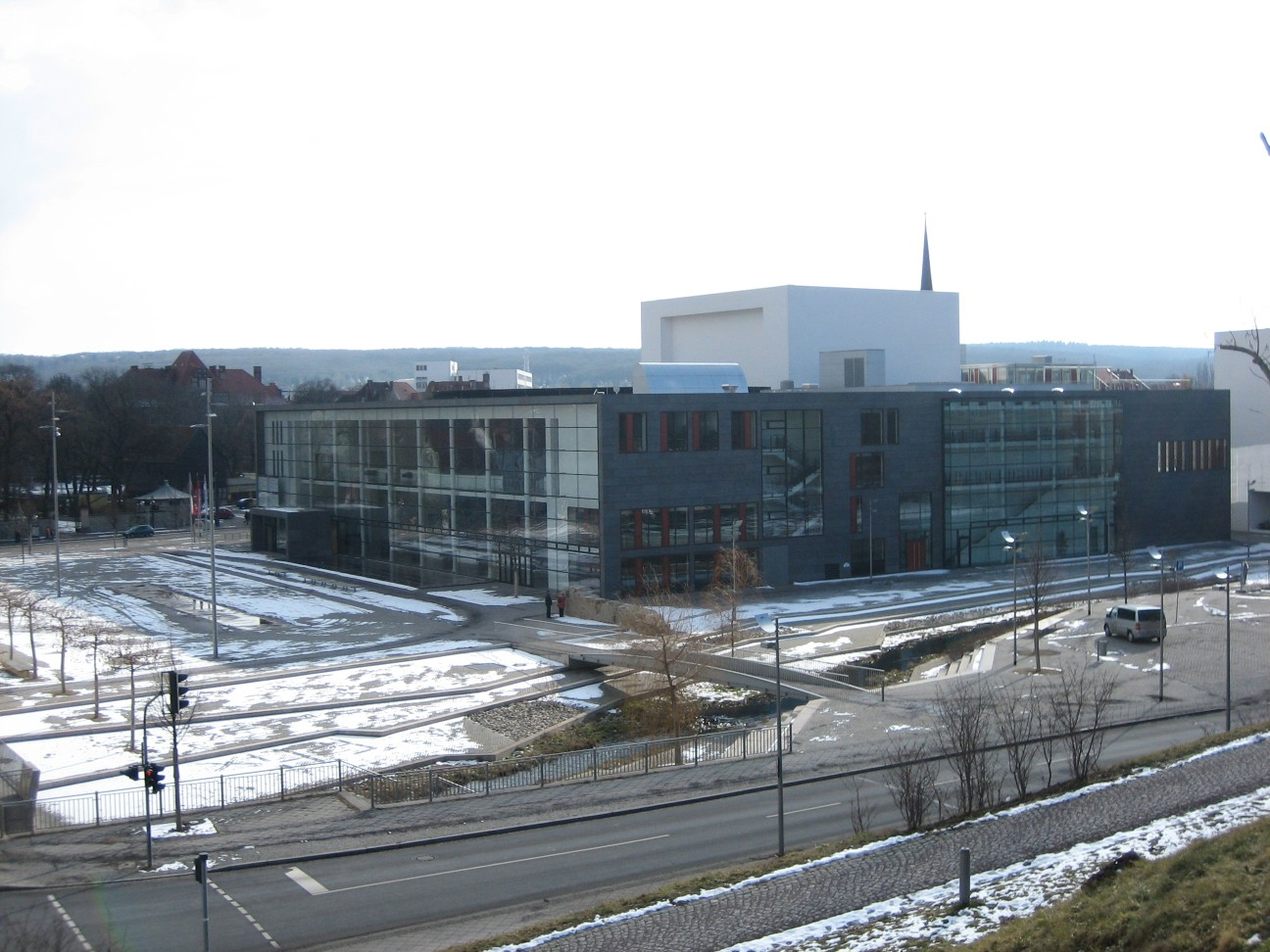 Theater in Erfurt, Germany